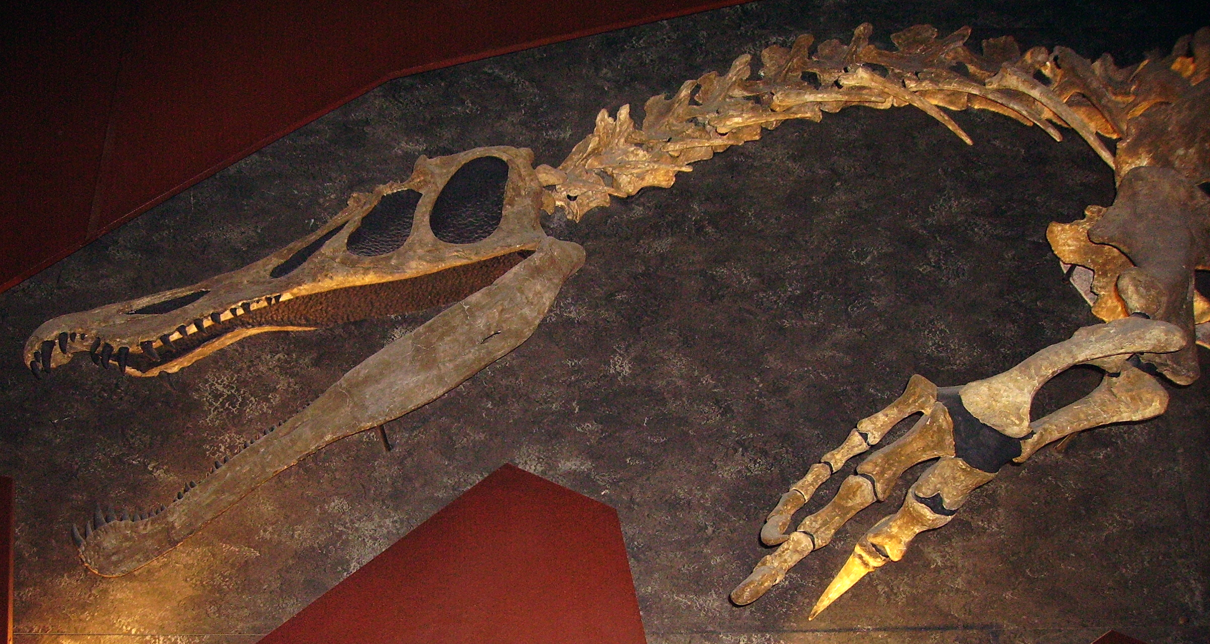 Reconstruction of the holotype of Baryonyx walkeri - Natural History Museum, London.